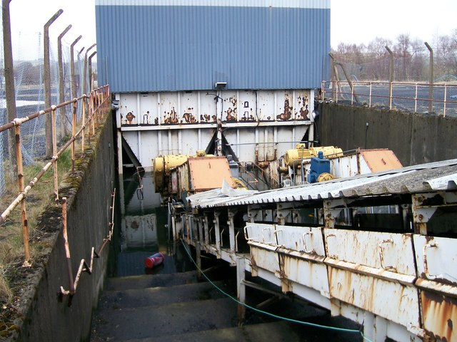 Crushing Plant View of hoppers and crushers looking down the conveyor belts.